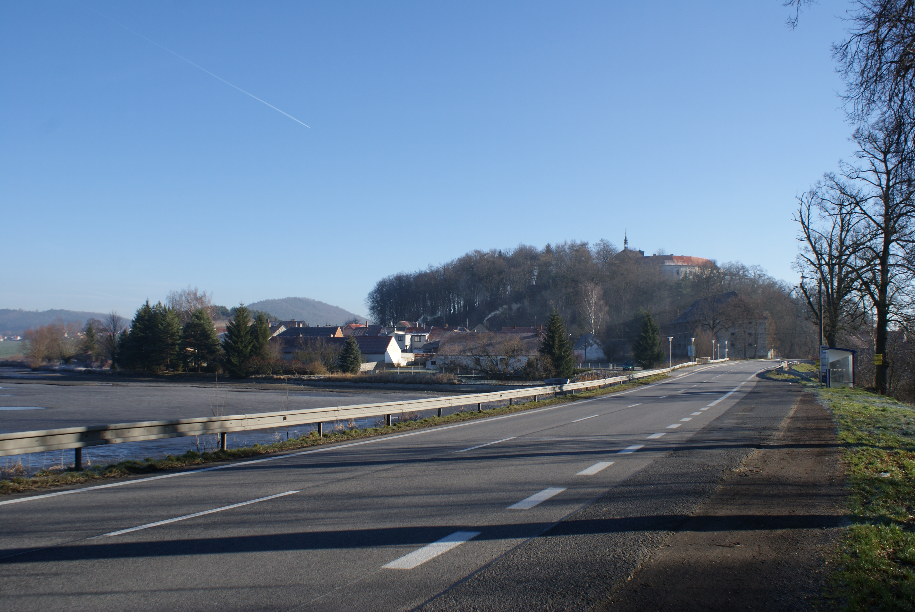 Střela (Strakonice), a village in Strakonice district, Czech Republic, seen from the west.